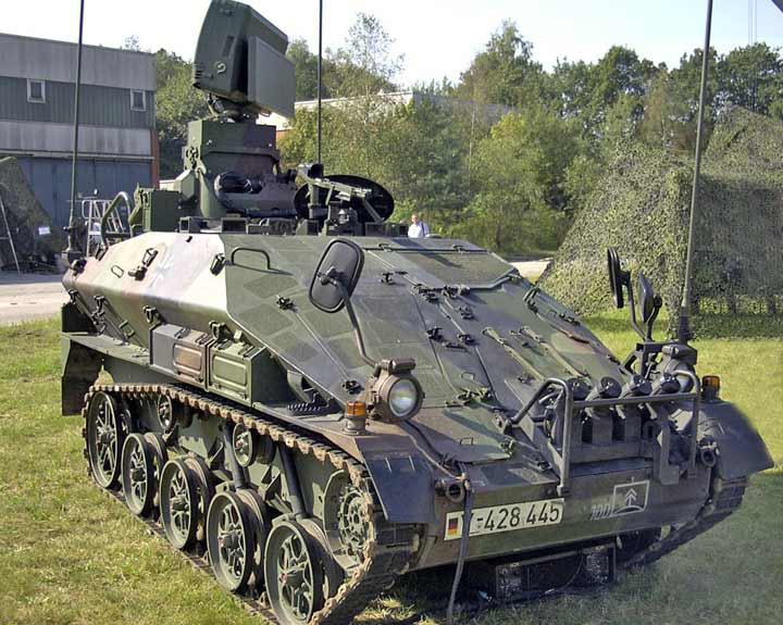 Wiesel 2 AFF (LeFlaSys Radar)